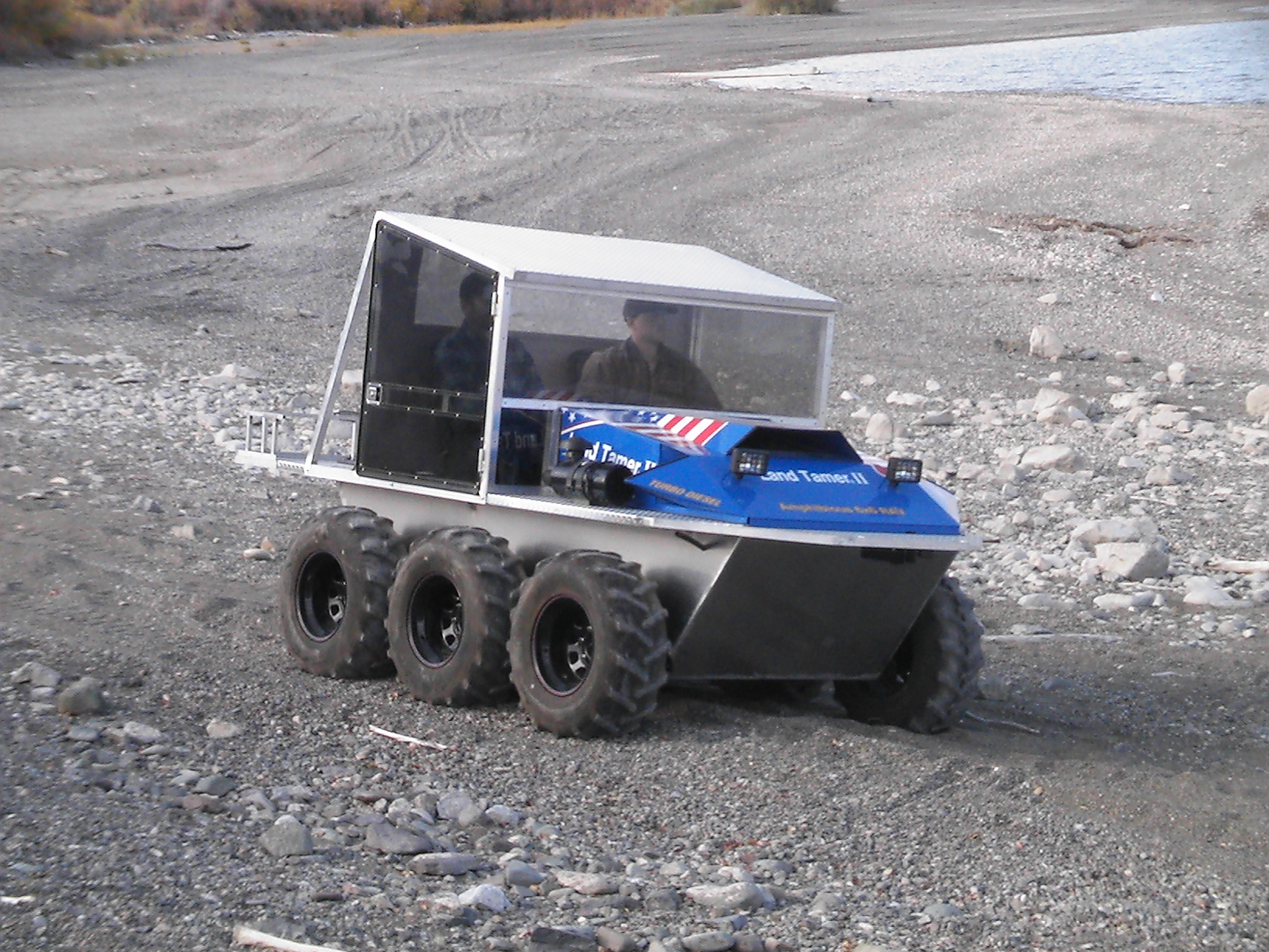 Land Tamer Amphibious Remote Access Vehicle. The Land Tamer is Manufactured at PFM Manufacturing Inc. in Townsend, MT USA.